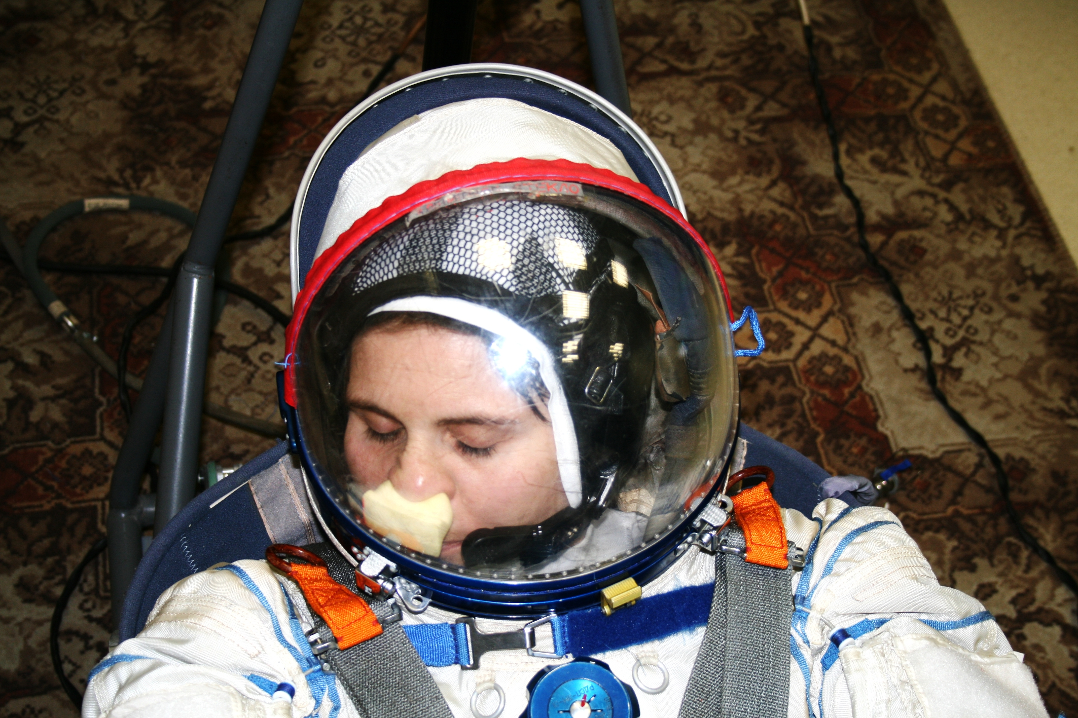 Samantha Cristoforetti performing the Valsalva manoeuvre during pressurization of the Russian Sokol space suit. Via Flickr